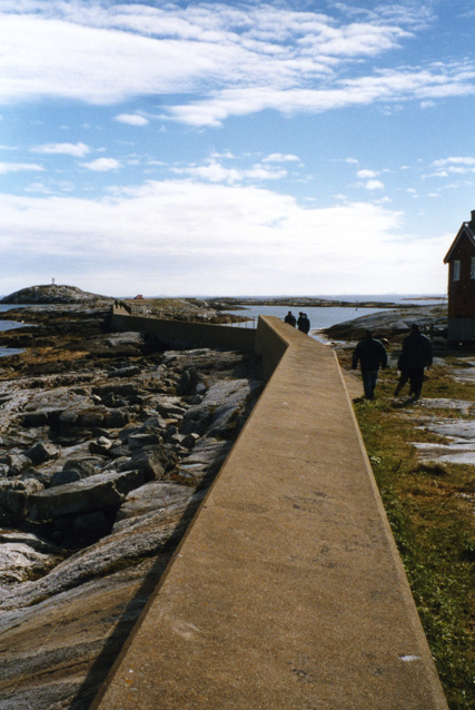 Sandsundvaer